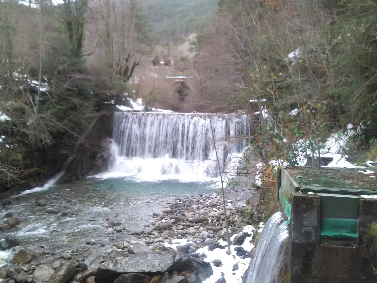 Osia river from the Labati bridge